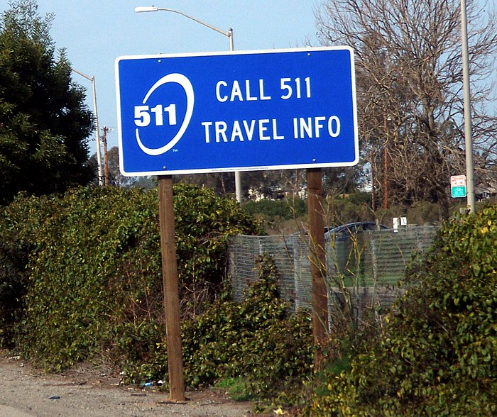 A traffic sign in the San Francisco Bay Area that encourages drivers to call the 5-1-1 telephone number for information on real-time traffic conditions. This sign is located on U.S. Highway 101 in Palo Alto.